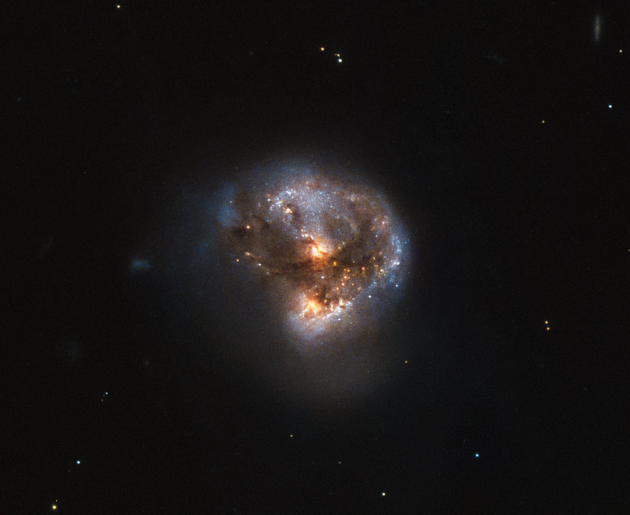 This galaxy has a far more exciting and futuristic classification than most — it is a megamaser. Megamasers are intensely bright, around 100 million times brighter than the masers found in galaxies like the Milky Way. The entire galaxy essentially acts as an astronomical laser that beams out microwave emission rather than visible light (hence the ‘m’ replacing the ‘l’). This megamaser is named IRAS 16399-0937, and is located over 370 million light-years from Earth. This NASA/ESA Hubble Space Telescope image belies the galaxy’s energetic nature, instead painting it as a beautiful and serene cosmic rosebud. The image comprises observations captured across various wavelengths by two of Hubble’s instruments: the Advanced Camera for Surveys (ACS), and the Near Infrared Camera and Multi-Object Spectrometer (NICMOS). NICMOS’s superb sensitivity, resolution, and field of view gave astronomers the unique opportunity to observe the structure of IRAS 16399-0937 in detail. They found that IRAS 16399-0937 hosts a double nucleus — the galaxy’s core is thought to be formed of two separate cores in the process of merging. The two components, named IRAS 16399N and IRAS 16399S for the northern and southern parts respectively, sit over 11 000 light-years apart. However, they are both buried deep within the same swirl of cosmic gas and dust and are interacting, giving the galaxy its peculiar structure. The nuclei are very different. IRAS 16399S appears to be a starburst region, where new stars are forming at an incredible rate. IRAS 16399N, however, is something known as a LINER nucleus (Low Ionization Nuclear Emission Region), which is a region whose emission mostly stems from weakly-ionised or neutral atoms of particular gases. The northern nucleus also hosts a black hole with some 100 million times the mass of the Sun!